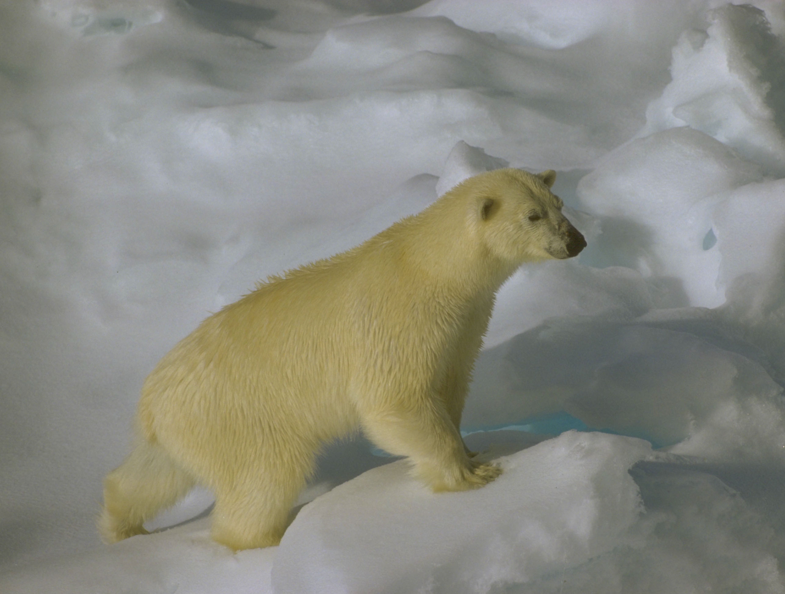 Ursus maritimus on sea ice close to Svalbard